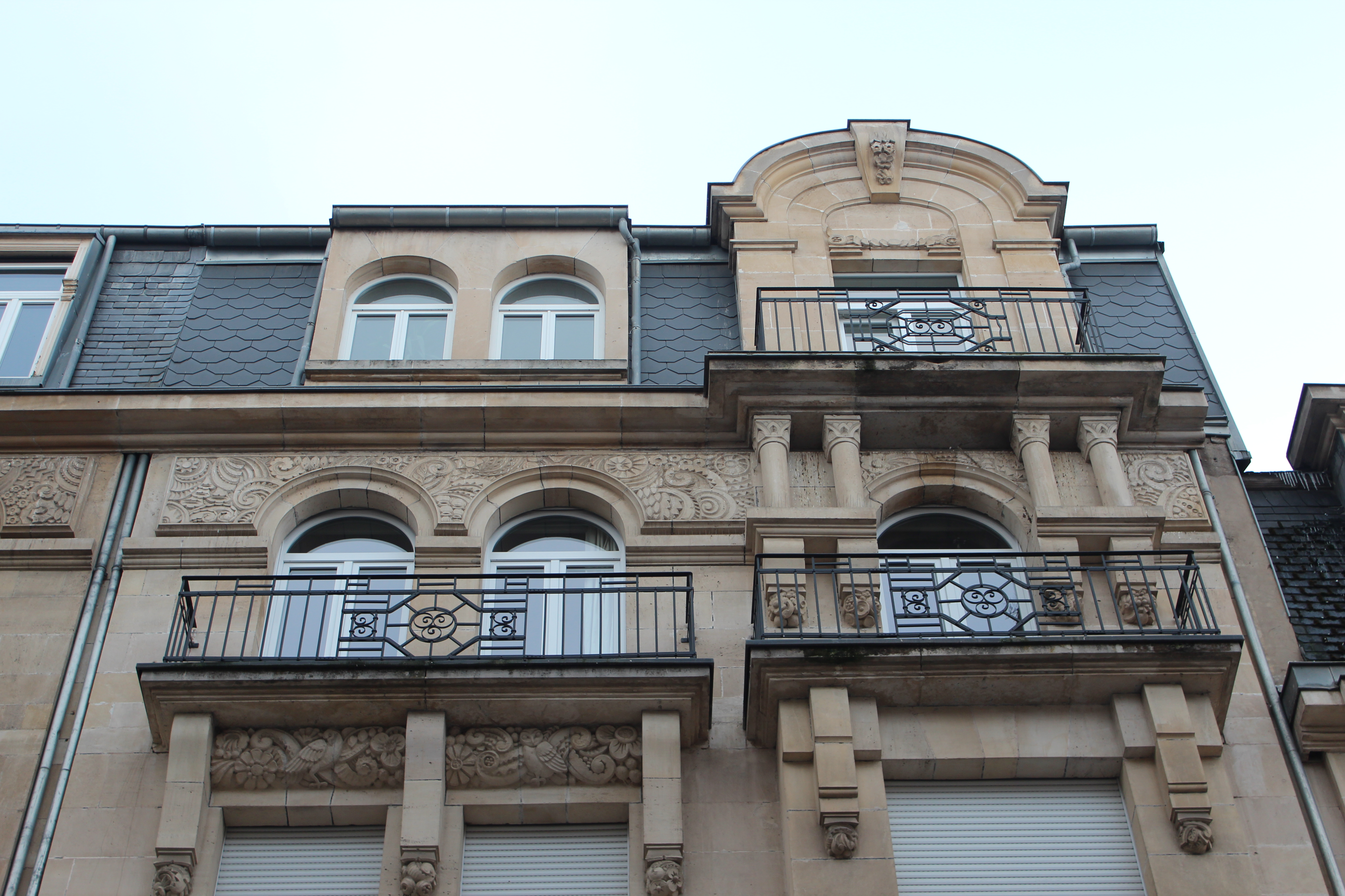 Former Hôtel du Parc in Esch-sur-Alzette, located at the corner of rue Xavier Brasseur and rue Zénon Bernard. Architect: Louis Rossi (Hotel plus adjacant buildings)